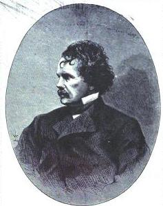 A portrait of American lawyer James T. Brady.